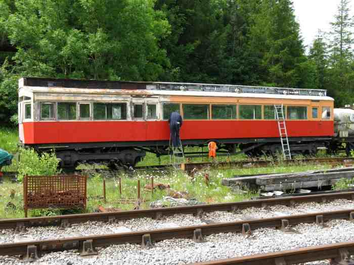 1903 Petrol Electric Autocar 3170 of the North Eastern Railway under restoration